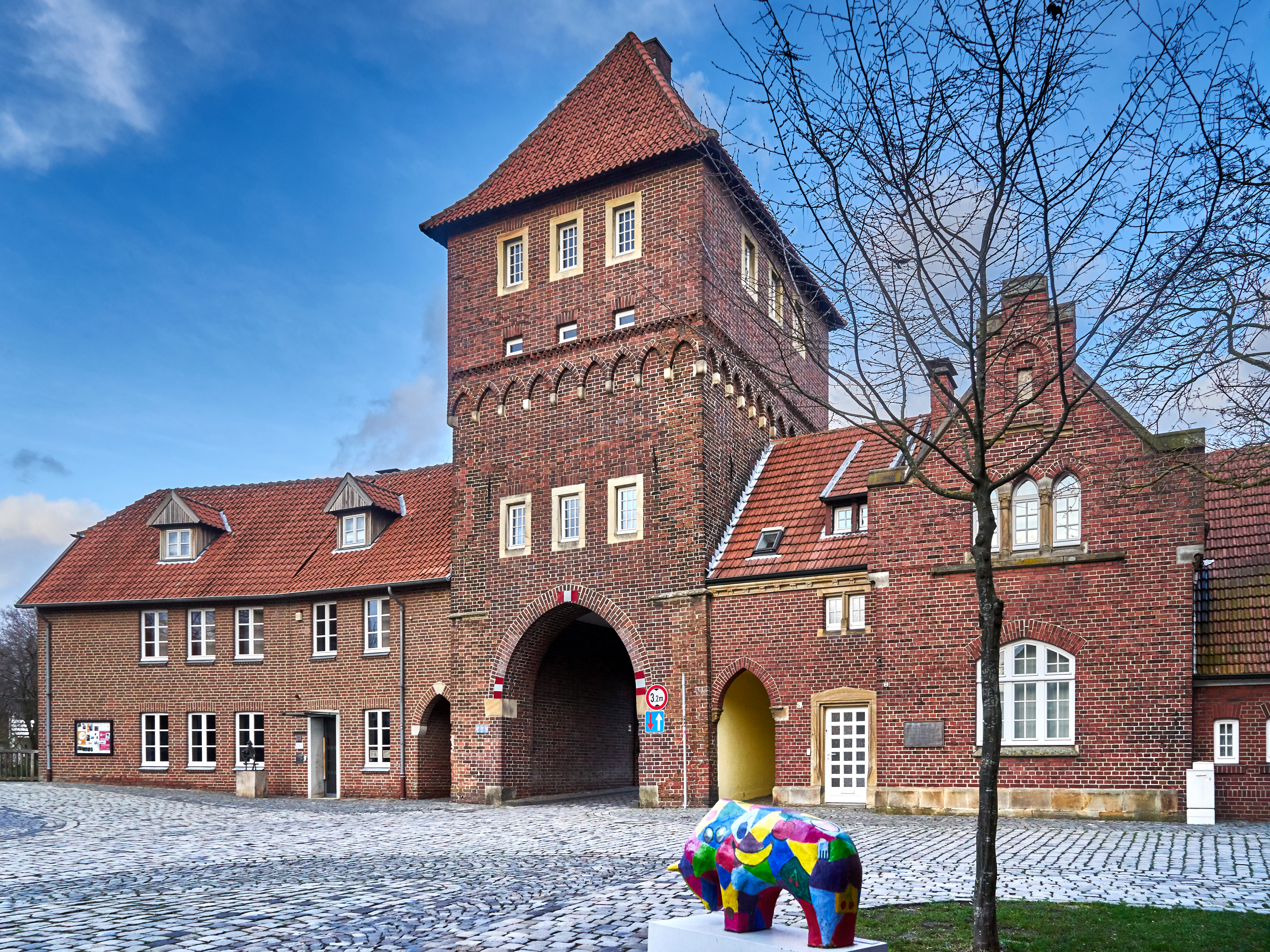 Walkenbrückentor, Coesfeld, North Rhine-Westphalia, Germany. This is a photograph of an architectural monument.